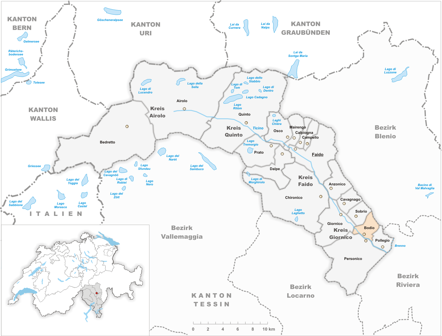 Municipality Bodio